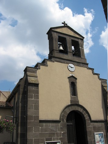 Durtol's church